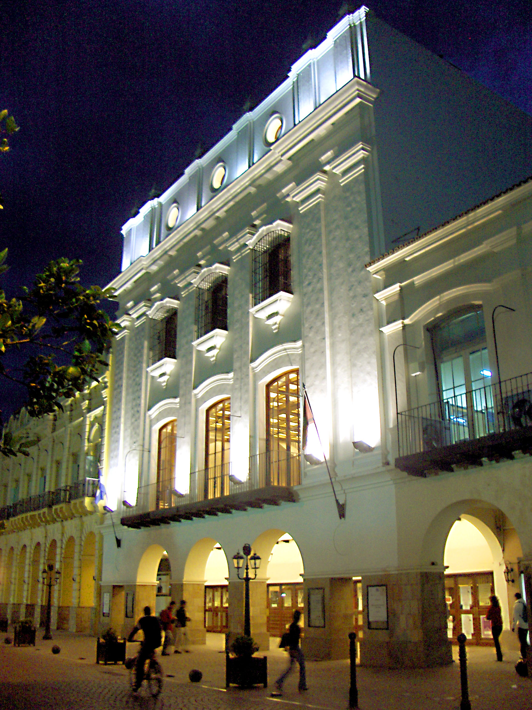 Victoria Theatre, Salta, Argentina.